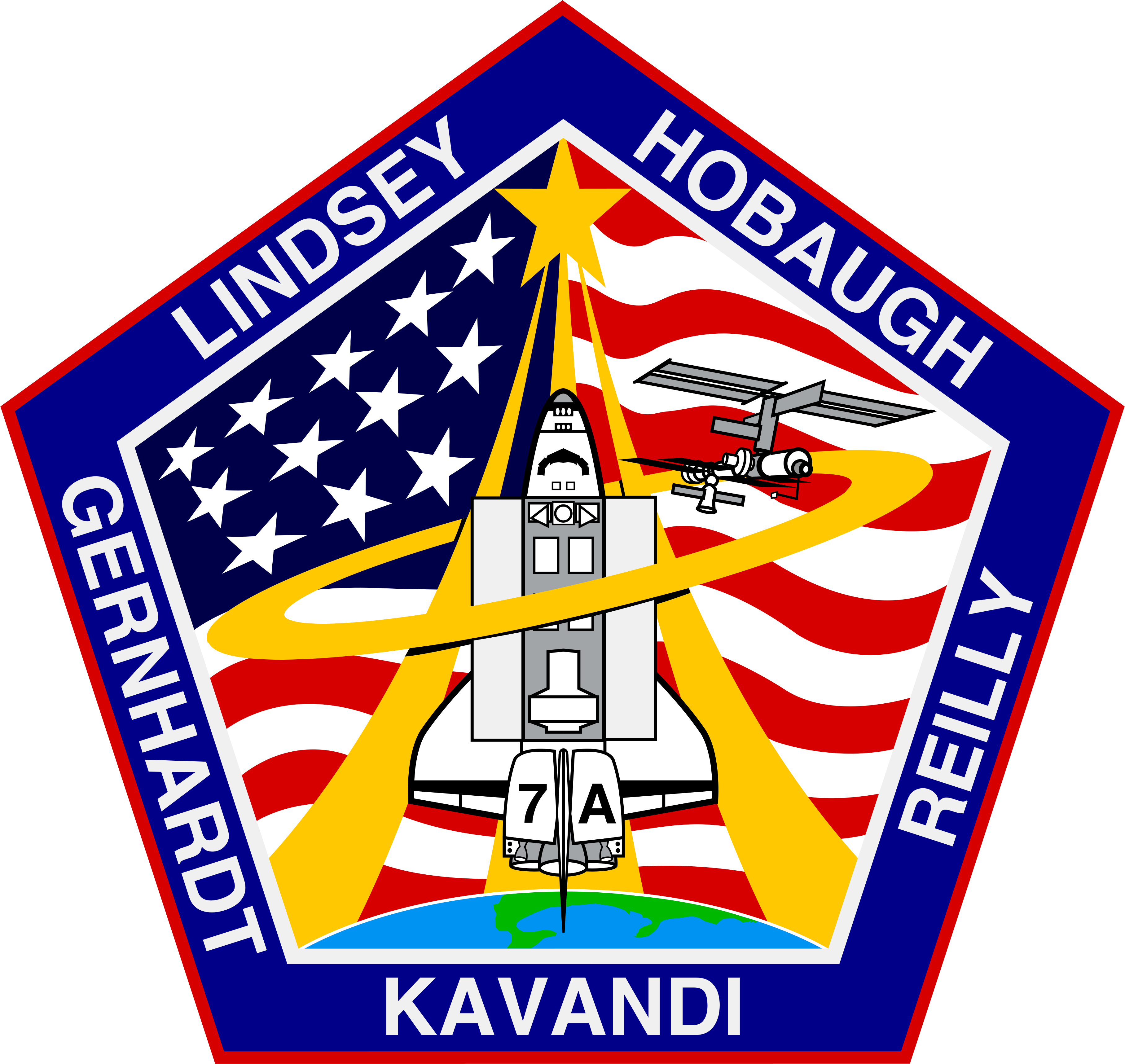 STS104-S-001 (March 2001) --- STS-104, International Space Station (ISS) assembly mission 7A, marks the completion of the initial assembly phase of ISS. The 7A crew will install, activate, and perform the first space walk from the Joint Airlock. The Joint Airlock will enable crews to perform space walks in either United States or Russian spacesuits while recovering over 90 percent of the gases that were previously lost when airlocks were vented to the vacuum of space. This patch depicts the launch of Space Shuttle Atlantis and the successful completion of the mission objectives as signified by the view of the ISS with the airlock installed. The astronaut symbol is displayed behind Atlantis as a tribute to the many crews that have flown before. The hard work, dedication, and teamwork of the airlock team is represented by the ISS components inside the payload bay which include the Joint Airlock and four high pressure gas tanks containing nitrogen and oxygen. In the words of a STS-104 crew spokesperson, "The stars and stripes background is symbolic of the commitment of a nation to this challenging international endeavor and to our children who represent its future." The NASA insignia design for Shuttle flights is reserved for use by the astronauts and for other official use as the NASA Administrator may authorize. Public availability has been approved only in the form of illustrations by the various news media. When and if there is any change in this policy, which is not anticipated, it will be publicly announced.